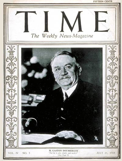 Gaston Doumergue on Time magazine cover, 1924.